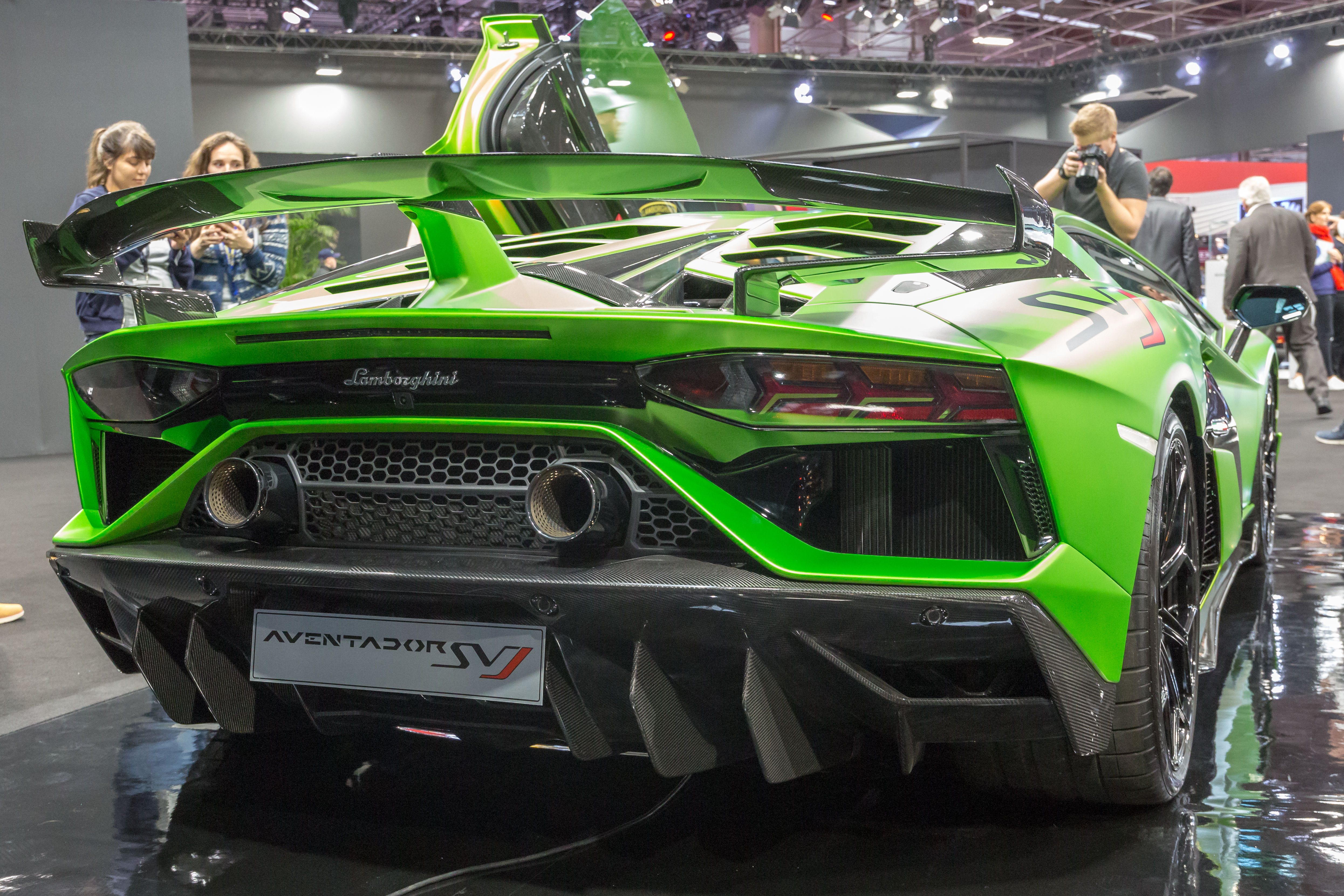 Lamborghini Aventador SVJ